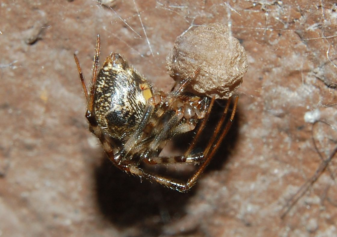 Parasteatoda tepidariorium (obsolete synonym Achaearanea tepidariorum), female with cocoon